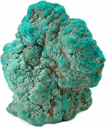 Turquoise Locality: Arizona, USA (Locality at ) A complete nodule, all around, of solid turquoise! This one weighs in at 4.8 ounces or 137 grams. 7 x 5 x 5 cm